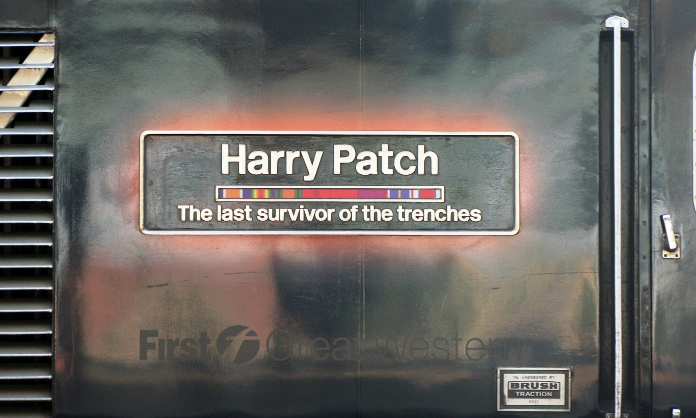 Great Western Railway's 43172 is named Harry Patch to remember the last surviving British soldier who fought in World War One.